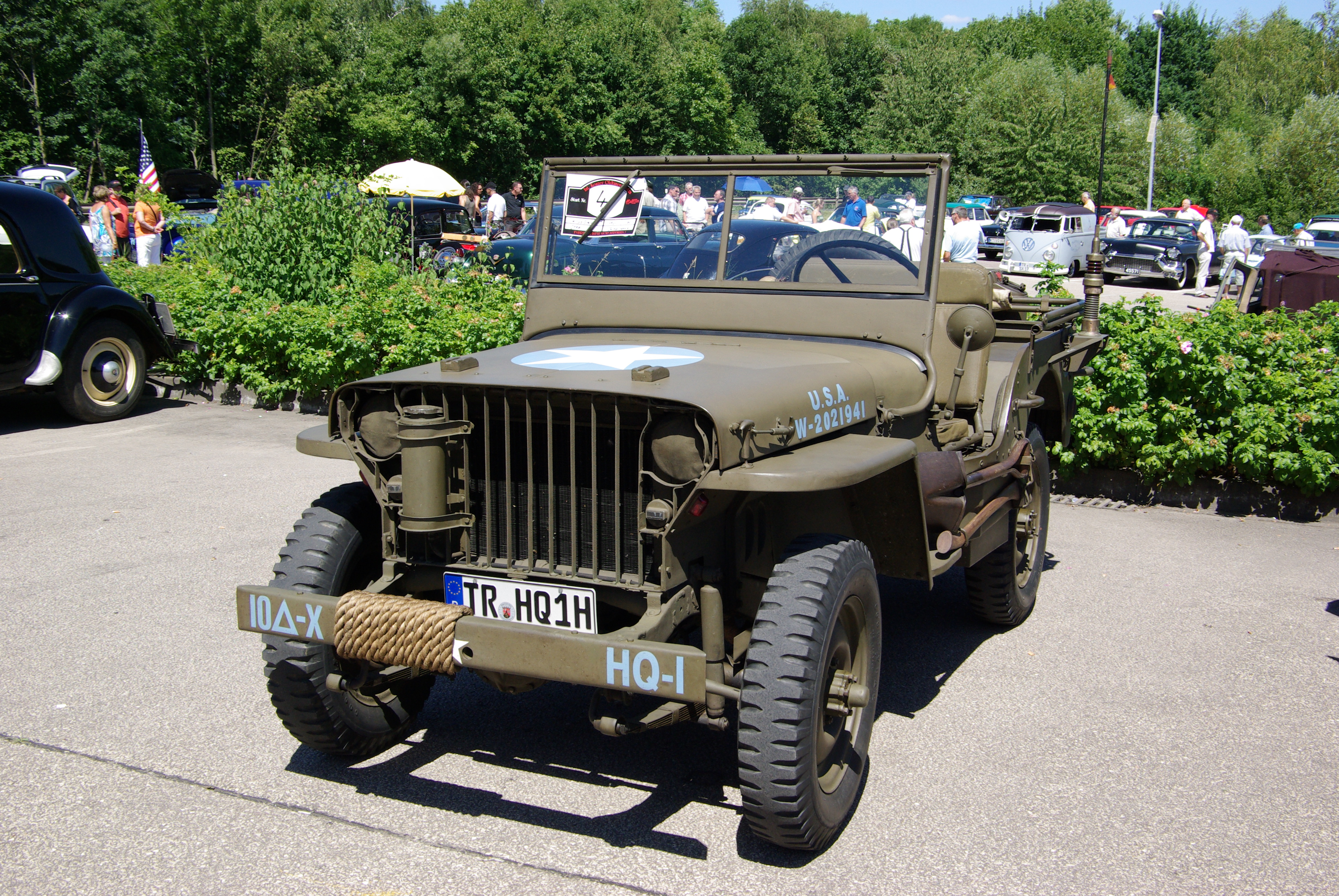 Early Willys MB Jeep, 1941, 60 PS, photographed at "Internationales Konzer Oldtimer-Treffen", 18. Juli 2010